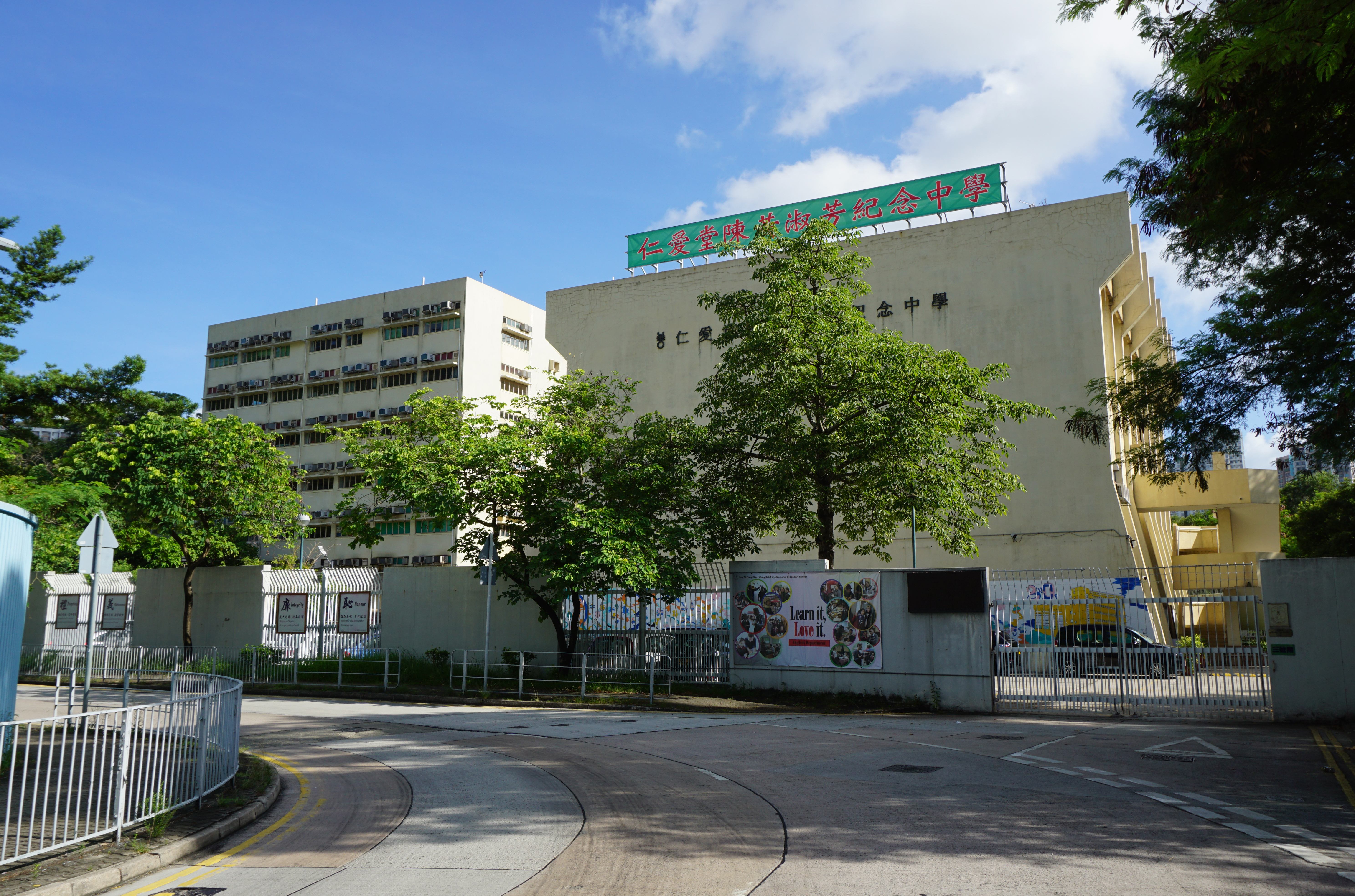 Yan Oi Tong Chan Wong Suk Fong Memorial Secondary School in Tuen Mun, Hong Kong.